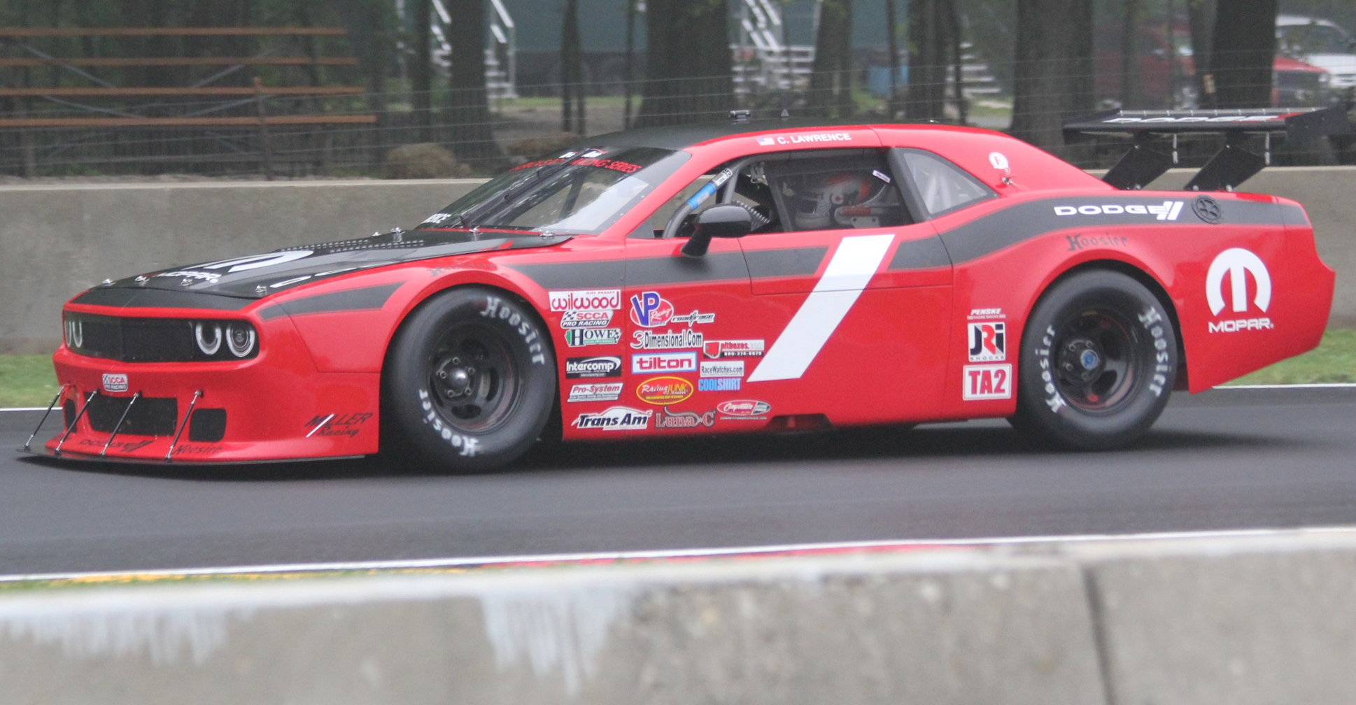 The SCCA Trans Am series car of Cameron Lawrence at the Next Dimension 100 race at Road America.